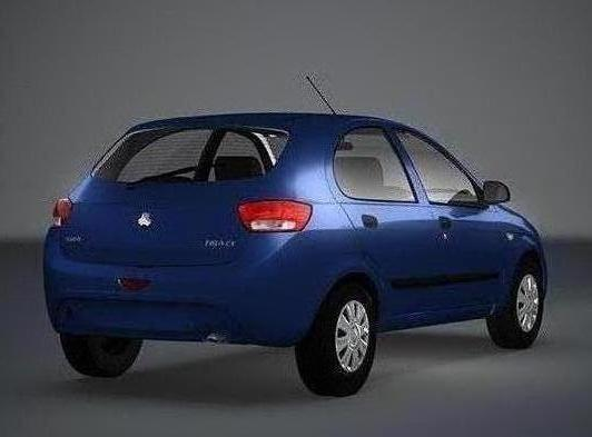 rear Tiba۲